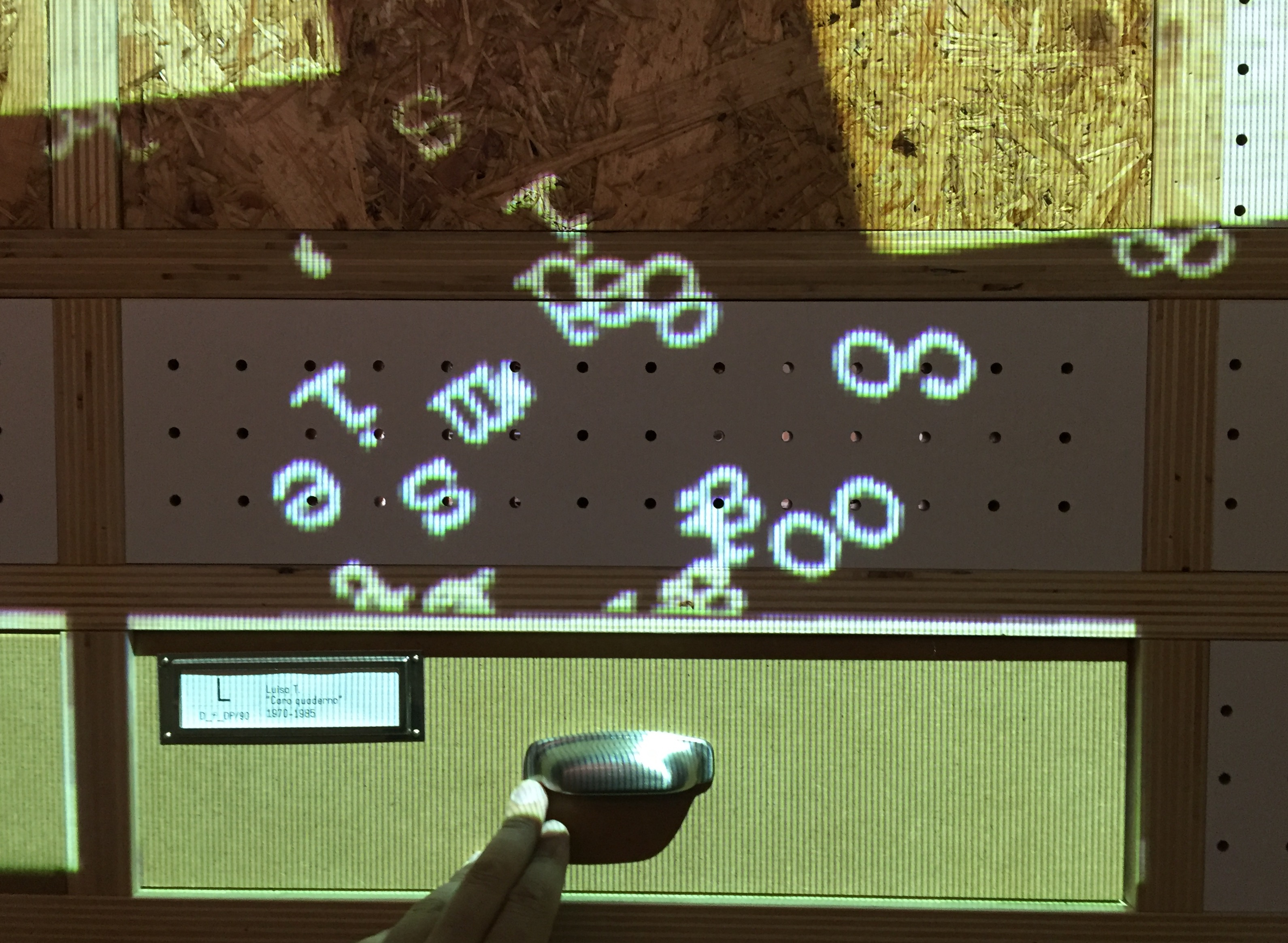 I cassetti della memoria